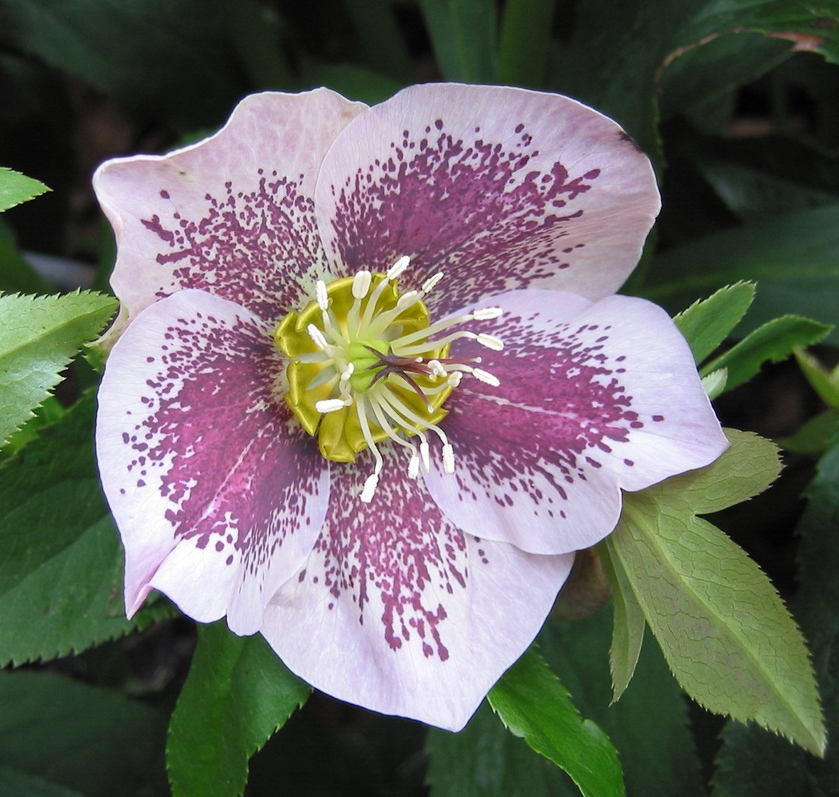 picture made by myself; Helleborus oriëntalis freckels; half february